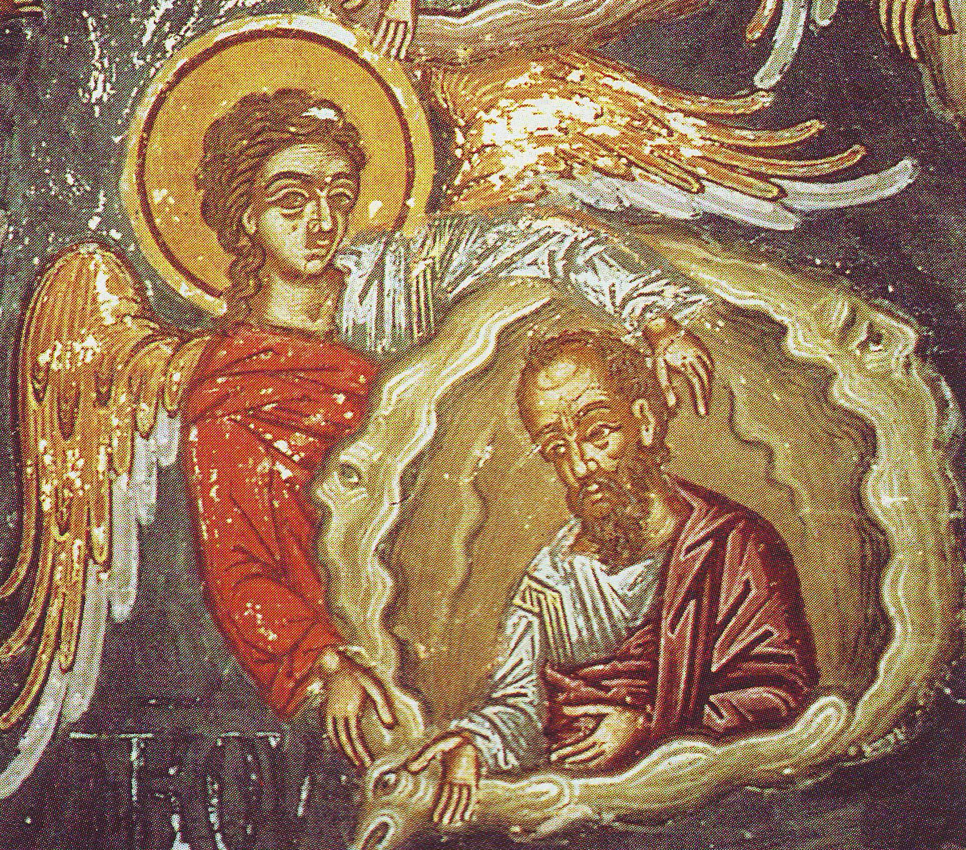 The Holy Monastery of St. Stephen